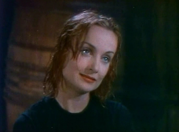 Screenshot of Carole Lombard from the film Nothing Sacred.